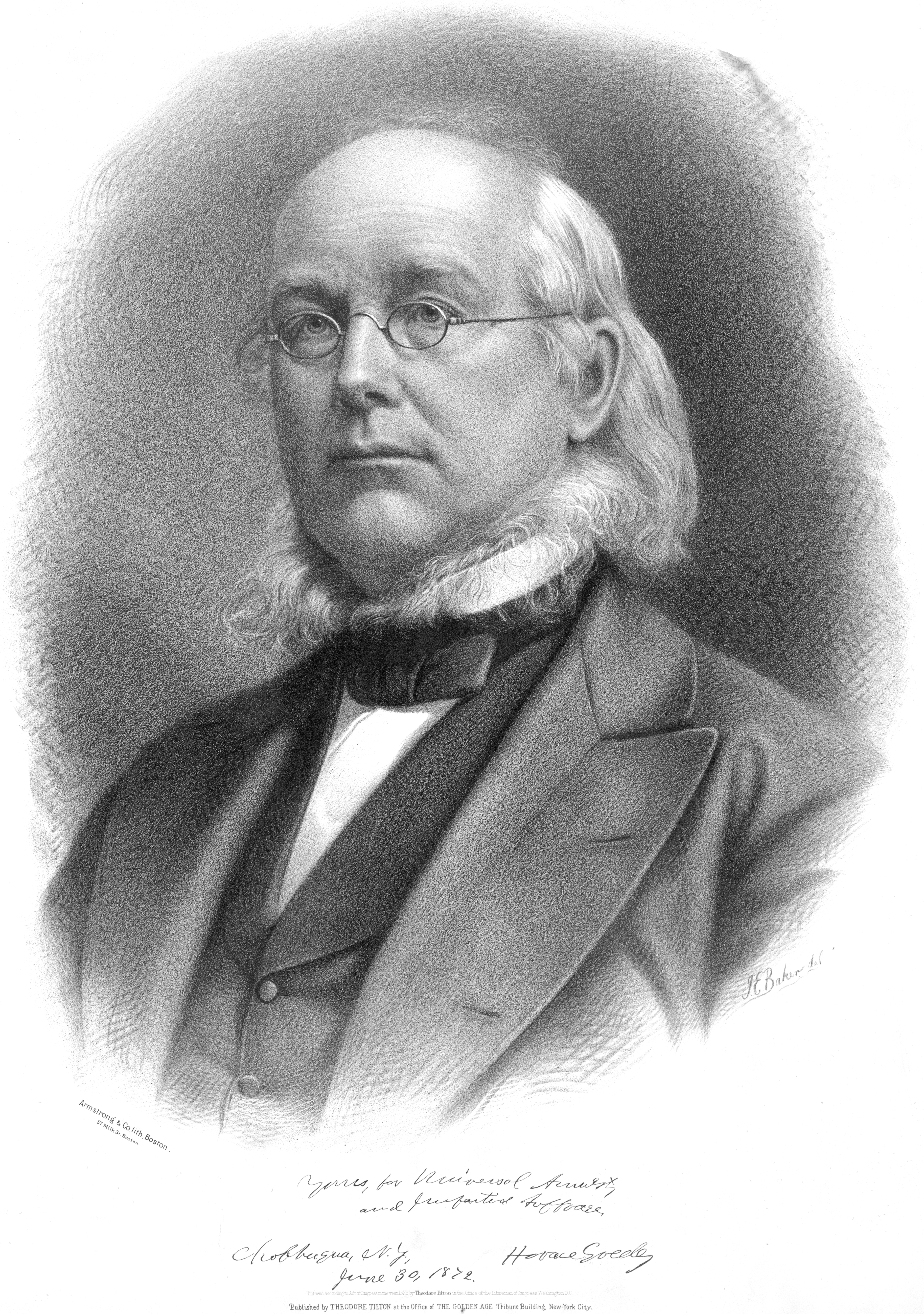 Horace Greeley D size print Artist's name at lower right reads "J.E. Baker del". Mark at lower left reads "Armstrong & Co, lith, Boston / 57 Milk St. Boston" Handwriting at bottom, presumably facsimile, reads: "Yours, for Universal Amnesty and Impartial Suffrage / Chappaqua, N.Y., / June 30, 1872 / (signed) Horace Greeley". Bottom margin contains two lines: "Entered according to Act of Congress in the year 1872 by Theodore Tilton in the Office of the Librarian of Congress Washington D.C. / Published by THEODORE TILTON at the Office of THE GOLDEN AGE Tribune Building, New-York City."